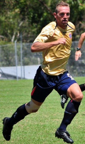 Ljubo Milicevic playing a trial game for Newcastle Jets against Central Coast Mariners.